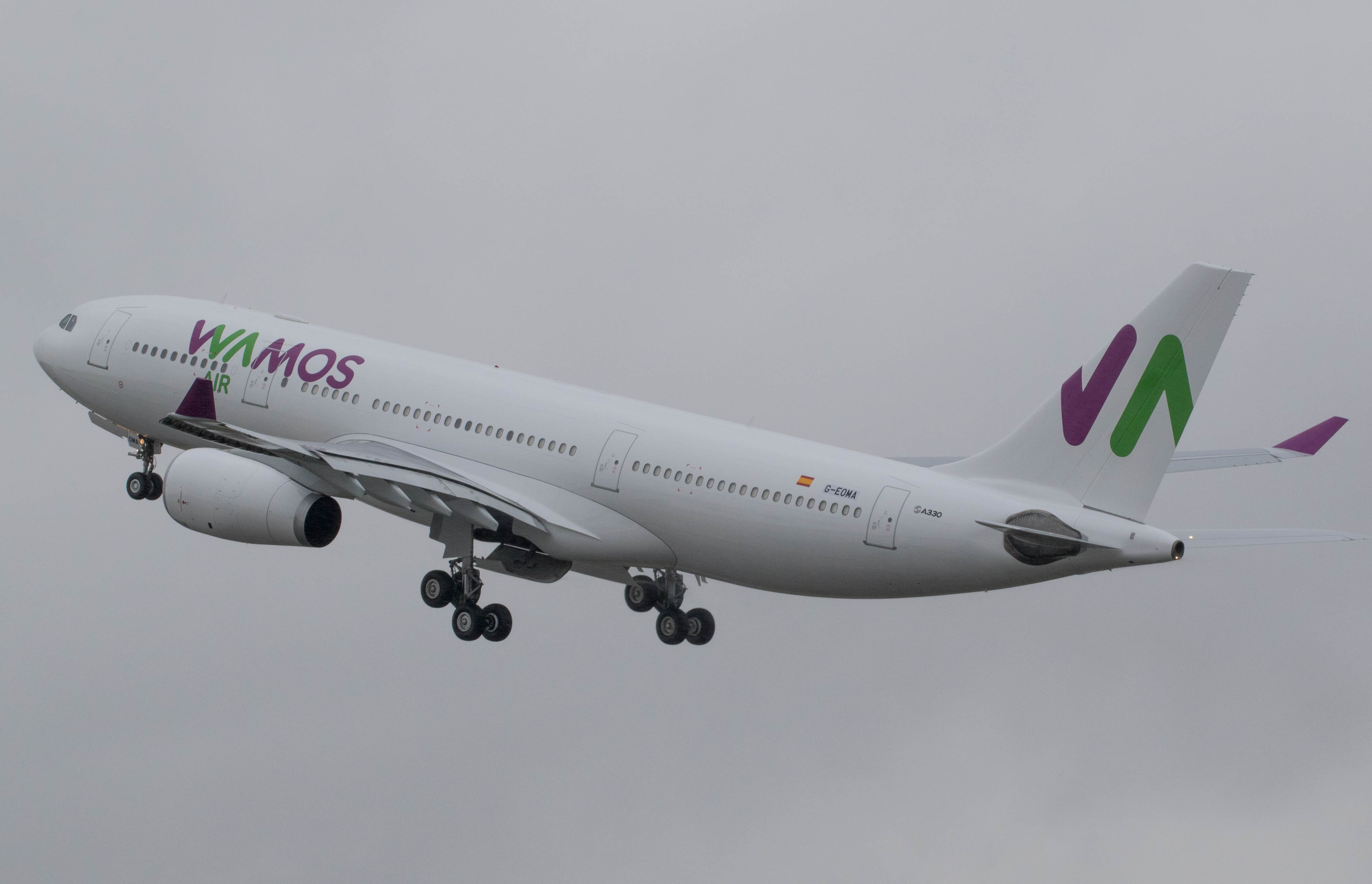 Seen departing Manchester on 09.03.16 after repainting at Air Livery, ex Monarch.